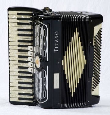 A Titano accordion in the permanent collection of The Children’s Museum of Indianapolis